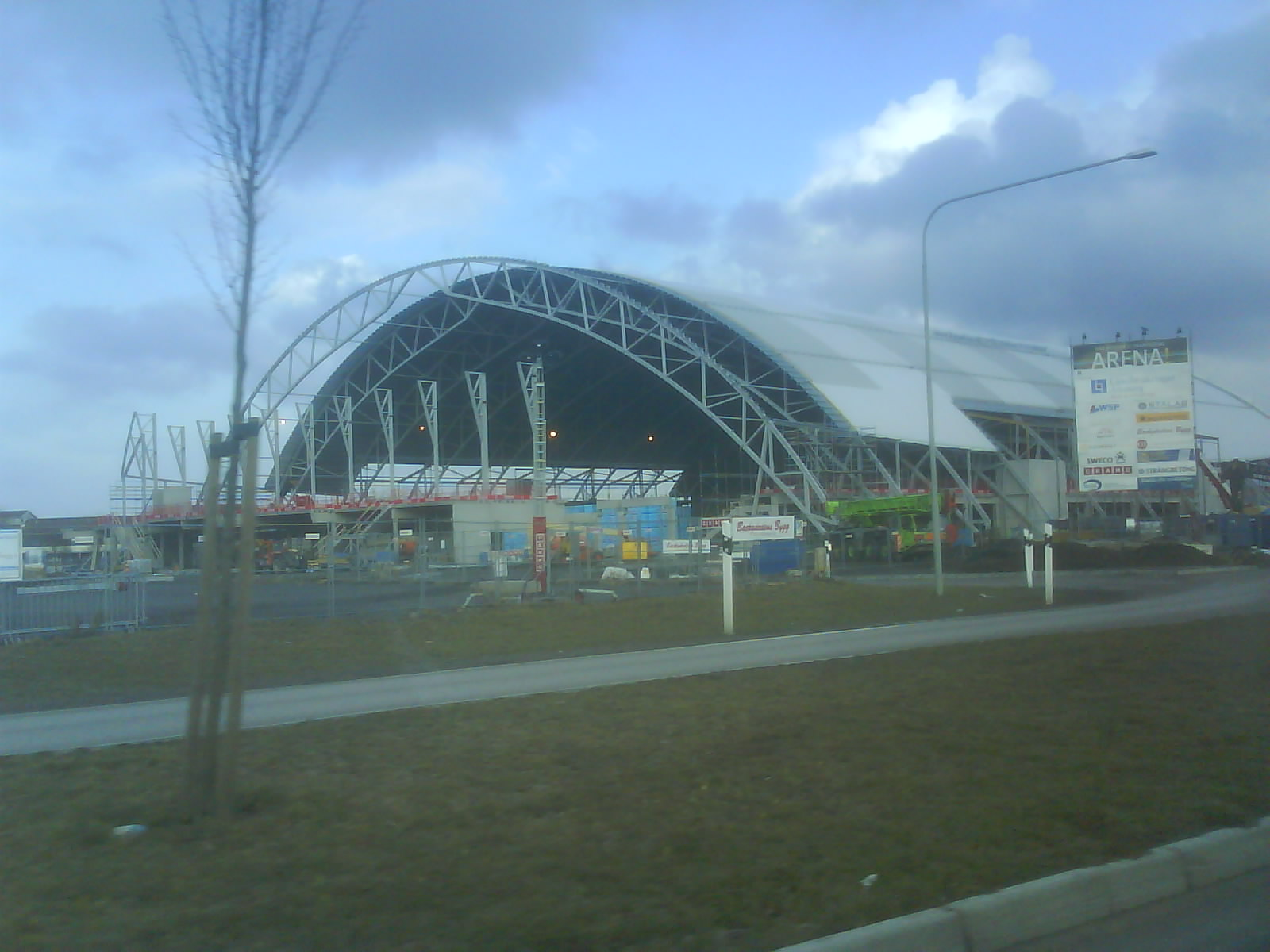 Arena Vänersborg under construction